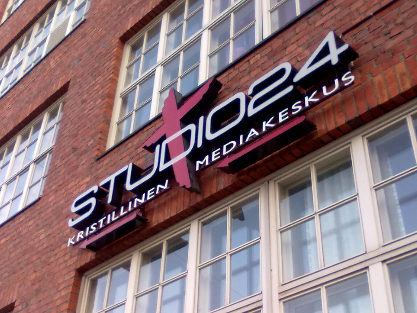 the Studio24 Media Center's logo at the wall in Sörnäinen.